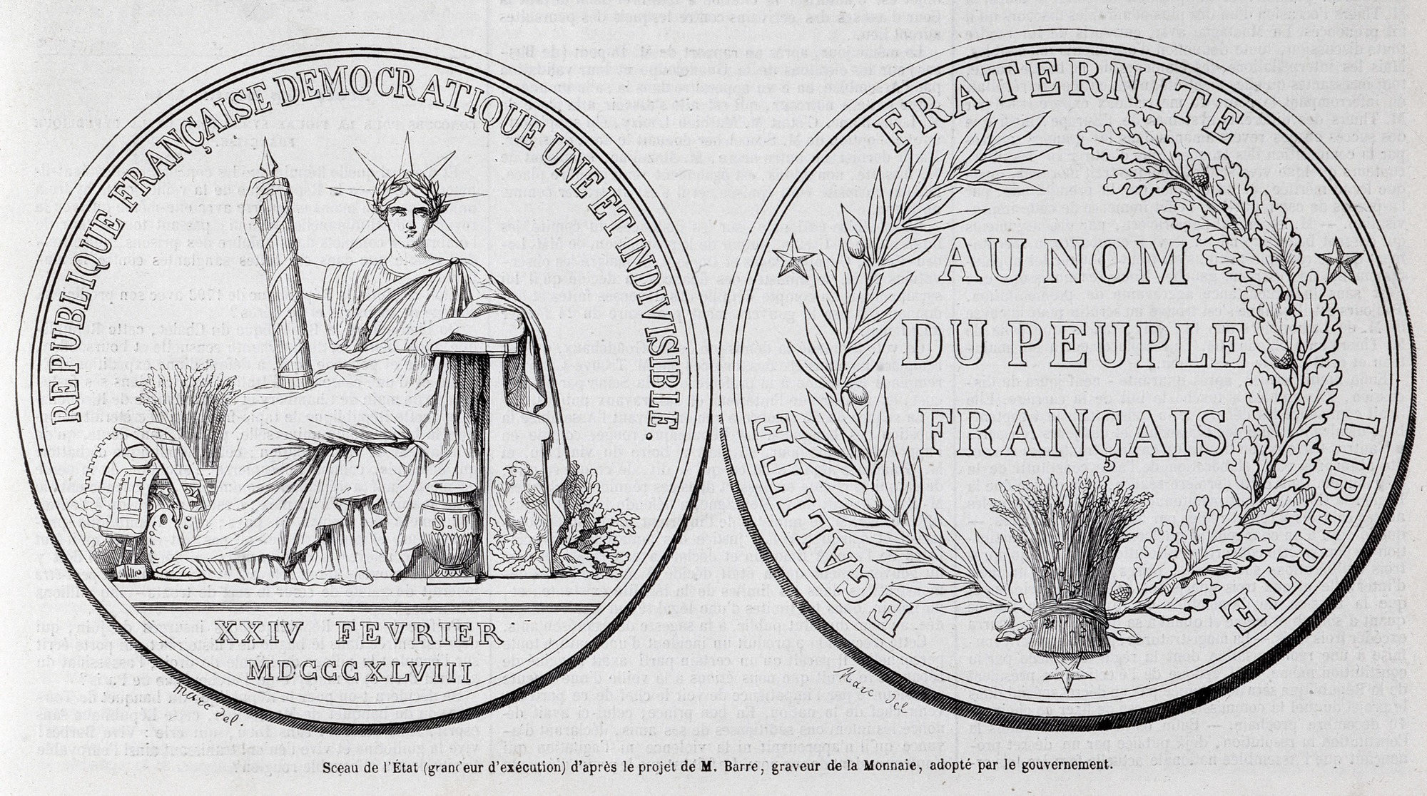 Obverse and reverse of the Great Seal of the French Republic REPUBLIQUE FRANÇAISE DEMOCRATIQUE UNE ET INDIVISIBLE. The France with radiate crown, sitting and holding fasces in r. hand. In exergue XXIV FEVRIER // MDCCCXLVIII EGALITE • FRATERNITE • LIBERTE. In field AU NOM // DU PEUPLE // FRANÇAIS in three lines. Crown: oak left & olive r.